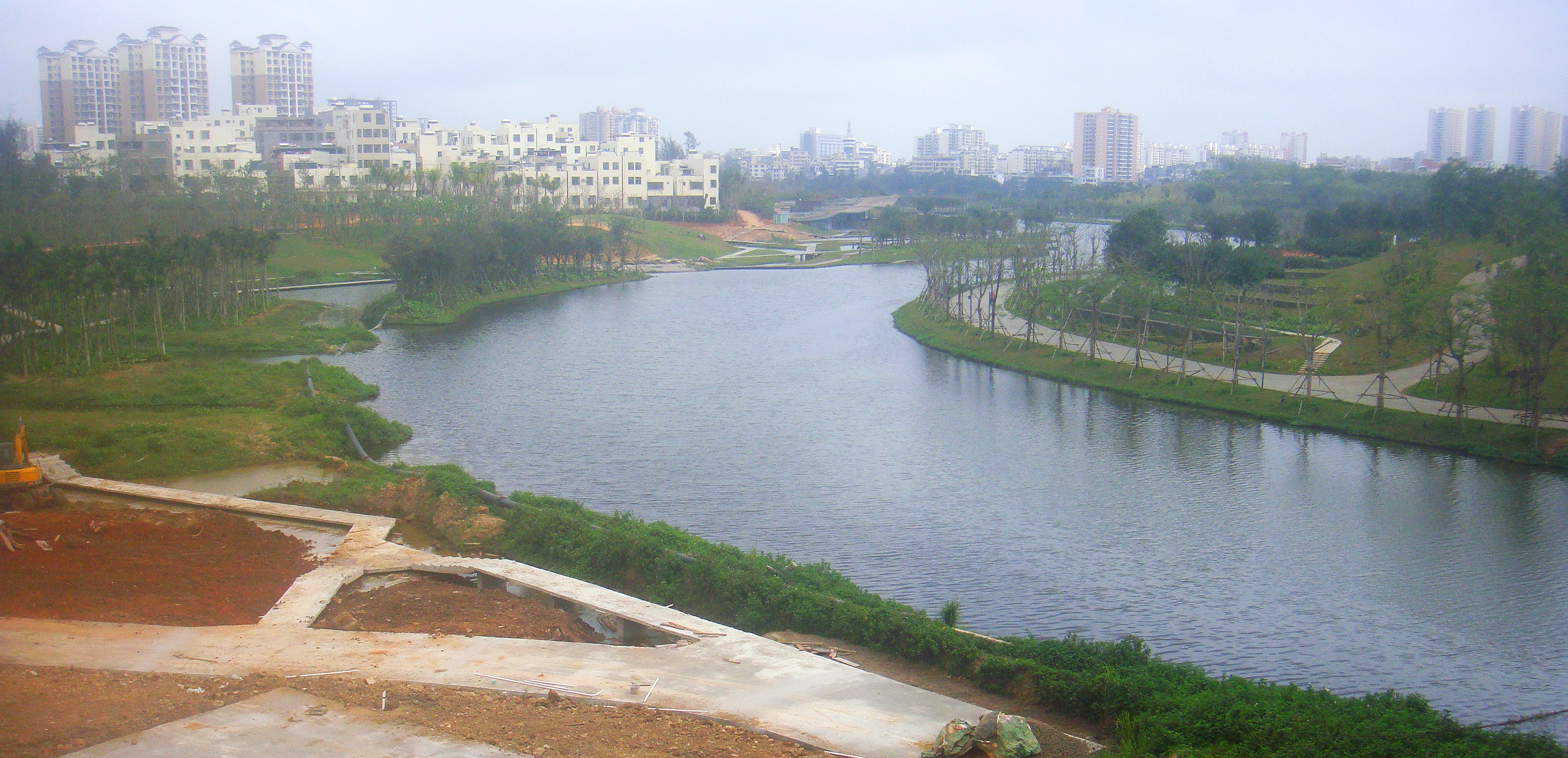 Meishe River entering Meishe River National Wetland Park viewed from Yehai Road, Haikou, Hainan, China